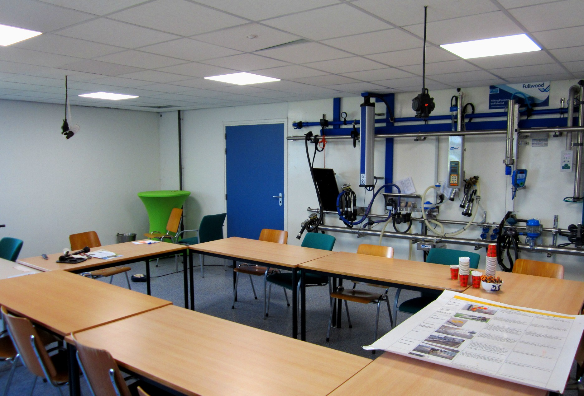 The Dairy Campus in Leeuwarden/Ljouwert, part of Wageningen University & Research. Class room for training in the use of milking machinery.